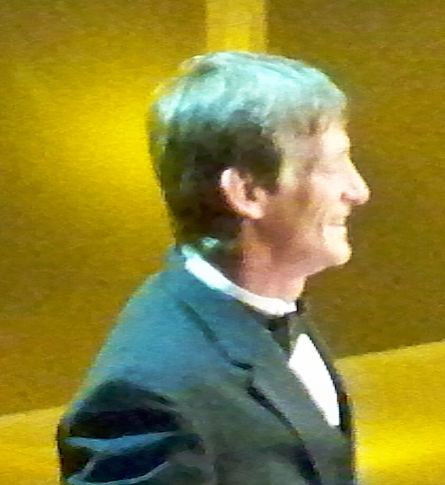 Depicted person: Kevin Von Erich – American professional wrestler